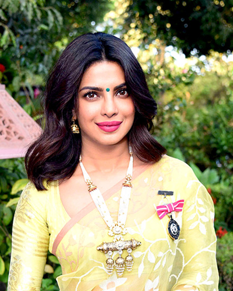 Priyanka Chopra's press conference after being conferred with the Padma Shri